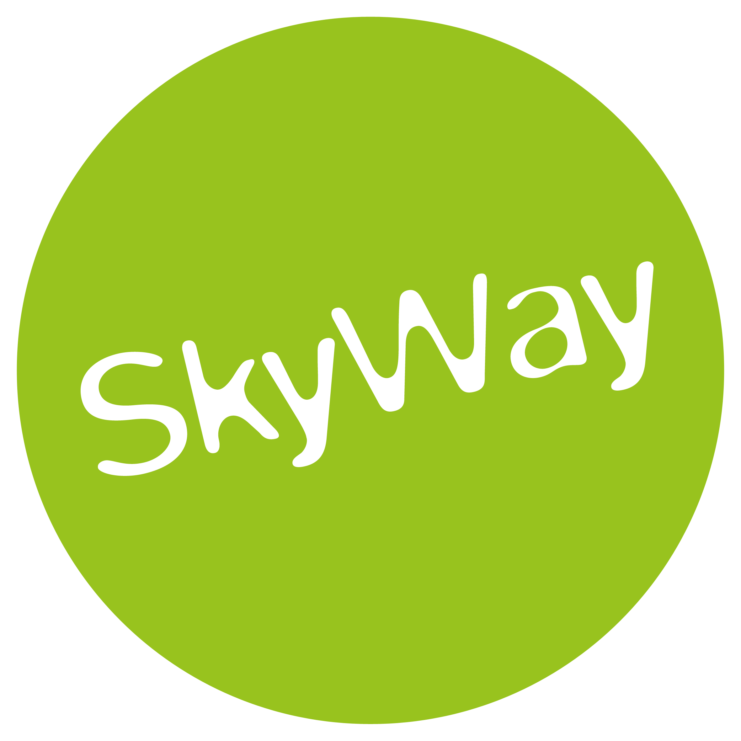 Charity logo